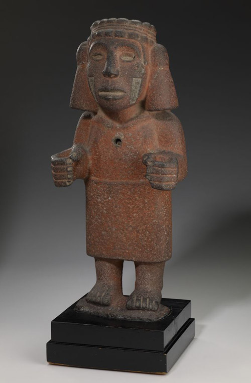 "Aztec Chalchiuhtlicue, 1200-1521 [pronunciaton: chal-chee-oo-TLEE-kweh] Gray basalt, red ochre Gift of Curtis Galleries, Minneapolis, MN 2009.33"